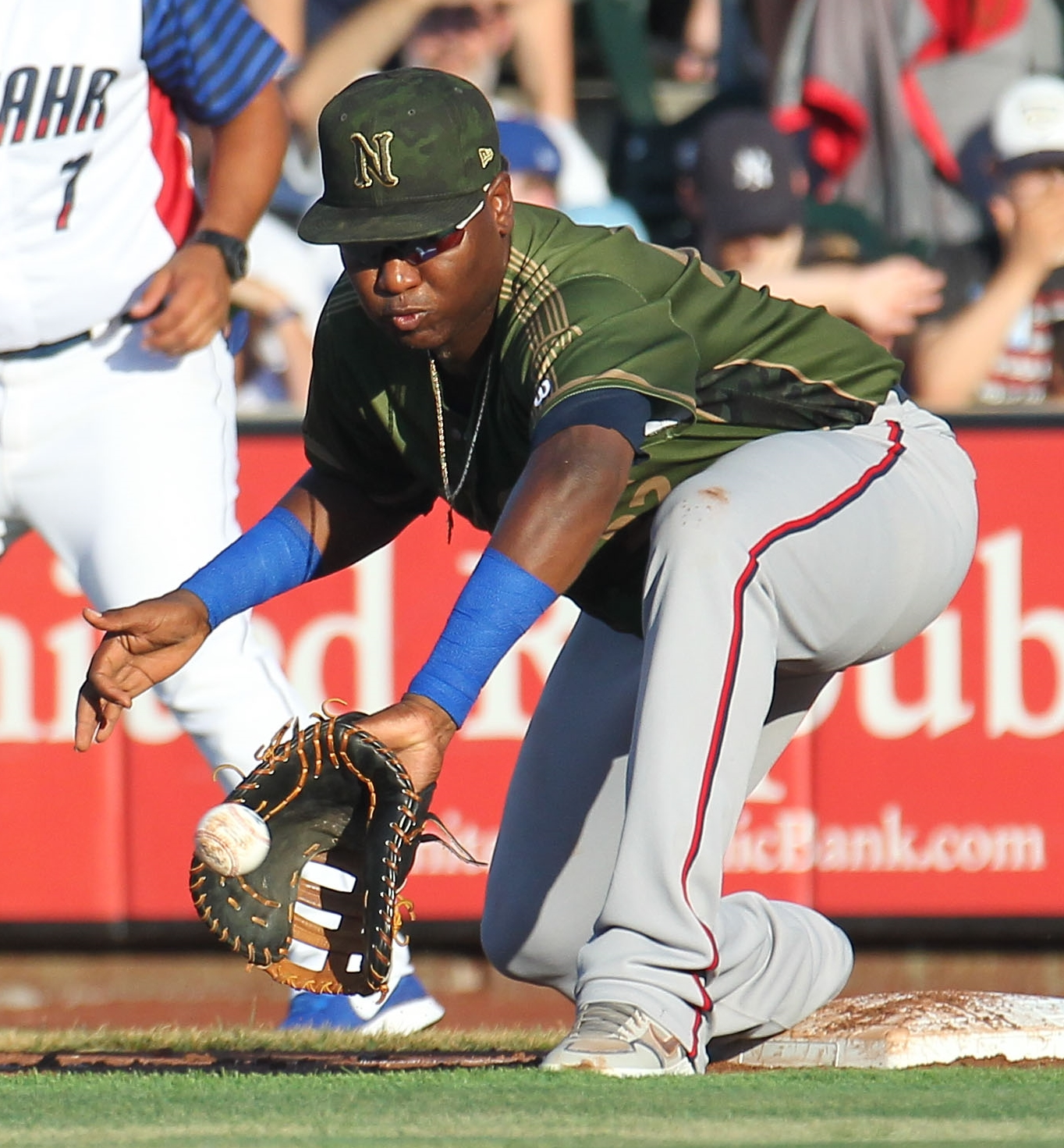 Minda Haas Kuhlmann | 2019 USAGE INSTRUCTIONS: You are welcome to share or publish to your own site or social media account, but you MUST credit me, Minda Haas Kuhlmann. Twitter: @minda33. Instagram: minda.haas